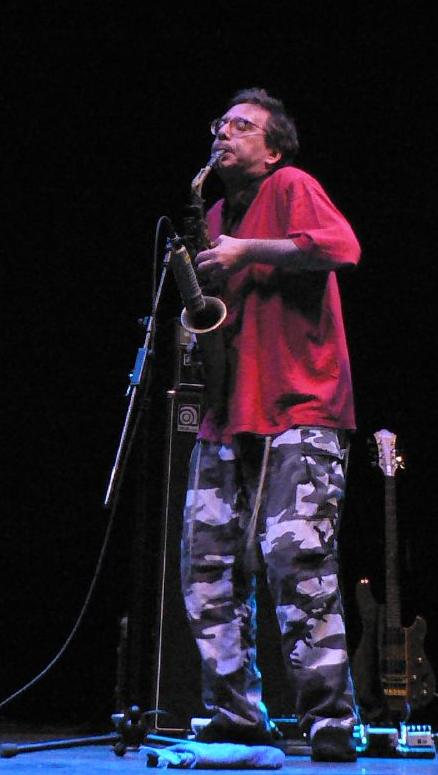 John Zorn (cropped version)